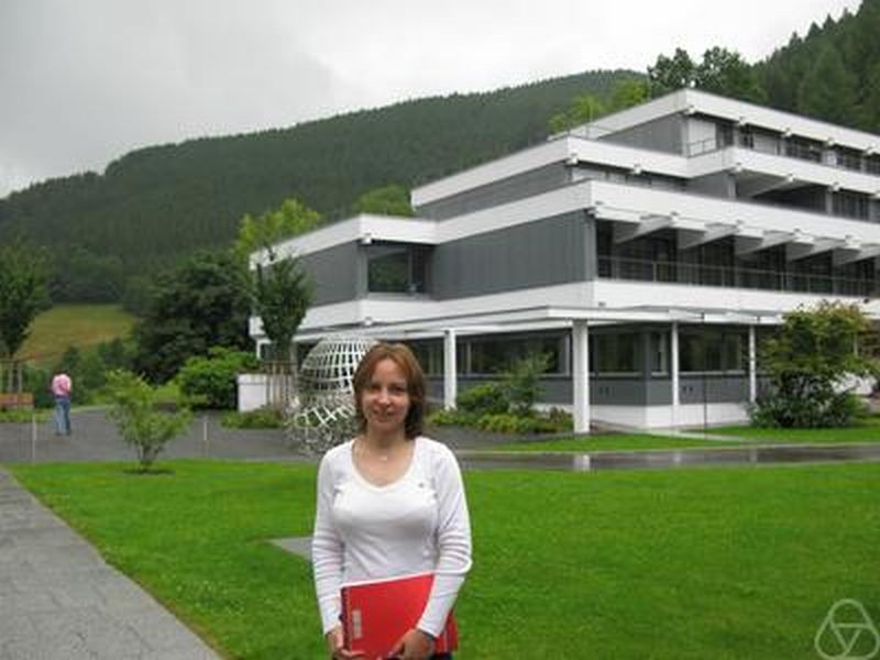 Stefanie Petermichl, Oberwolfach 2008